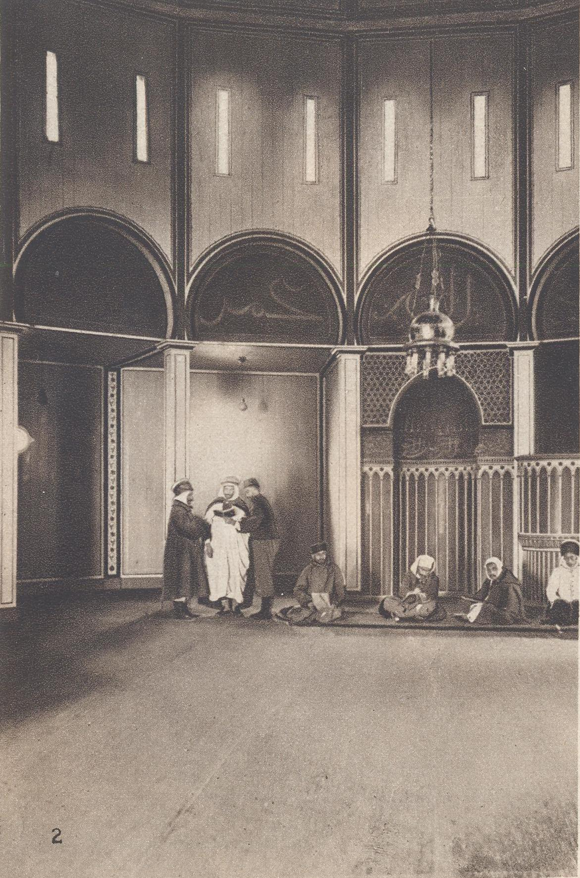 From the Half-Moon Camp near Wu..nsdorf. General View of Camp.View intern. "Album de la Grande Guerre" №10, 1915